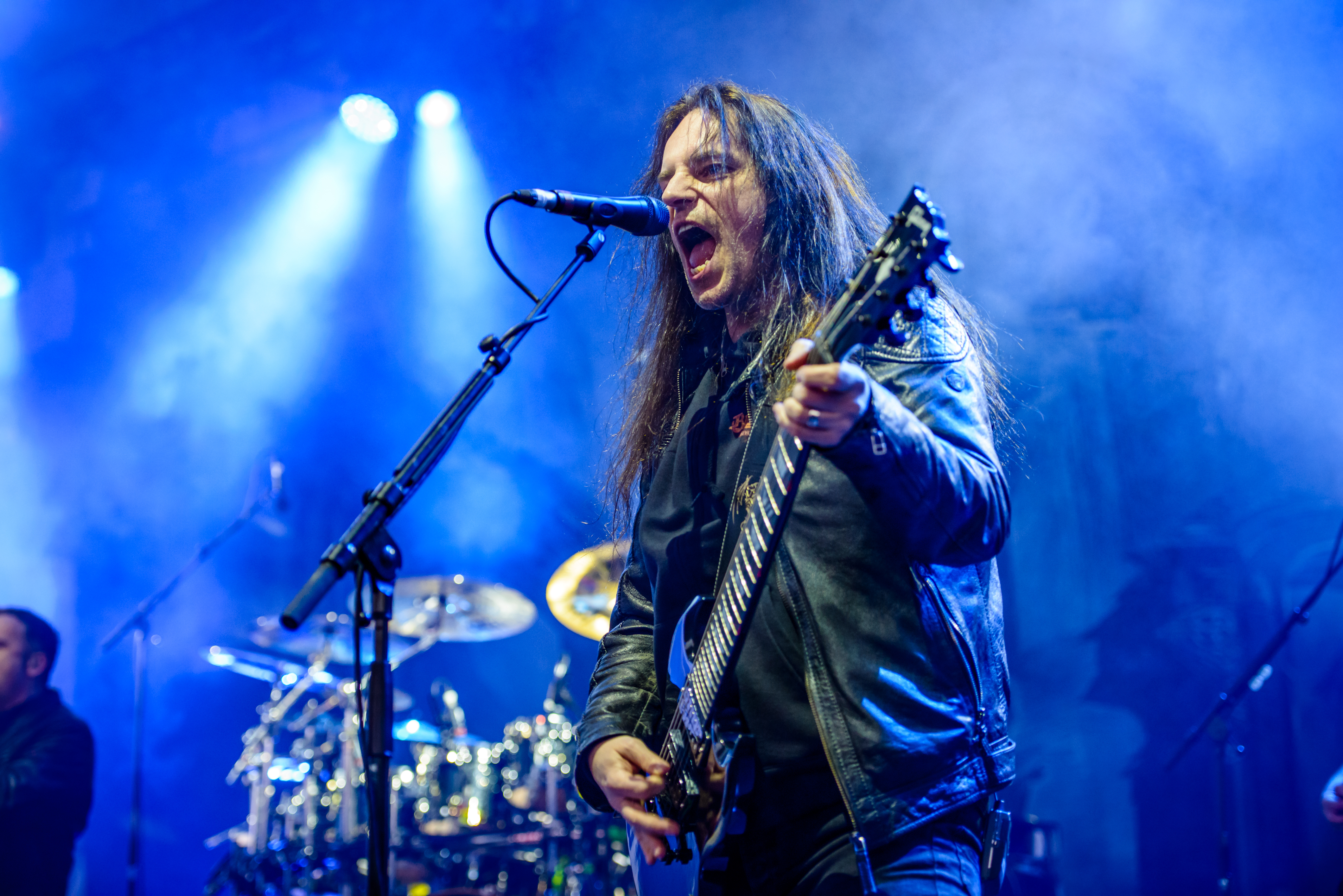 Blind Guardian; RockHard Festival 2016